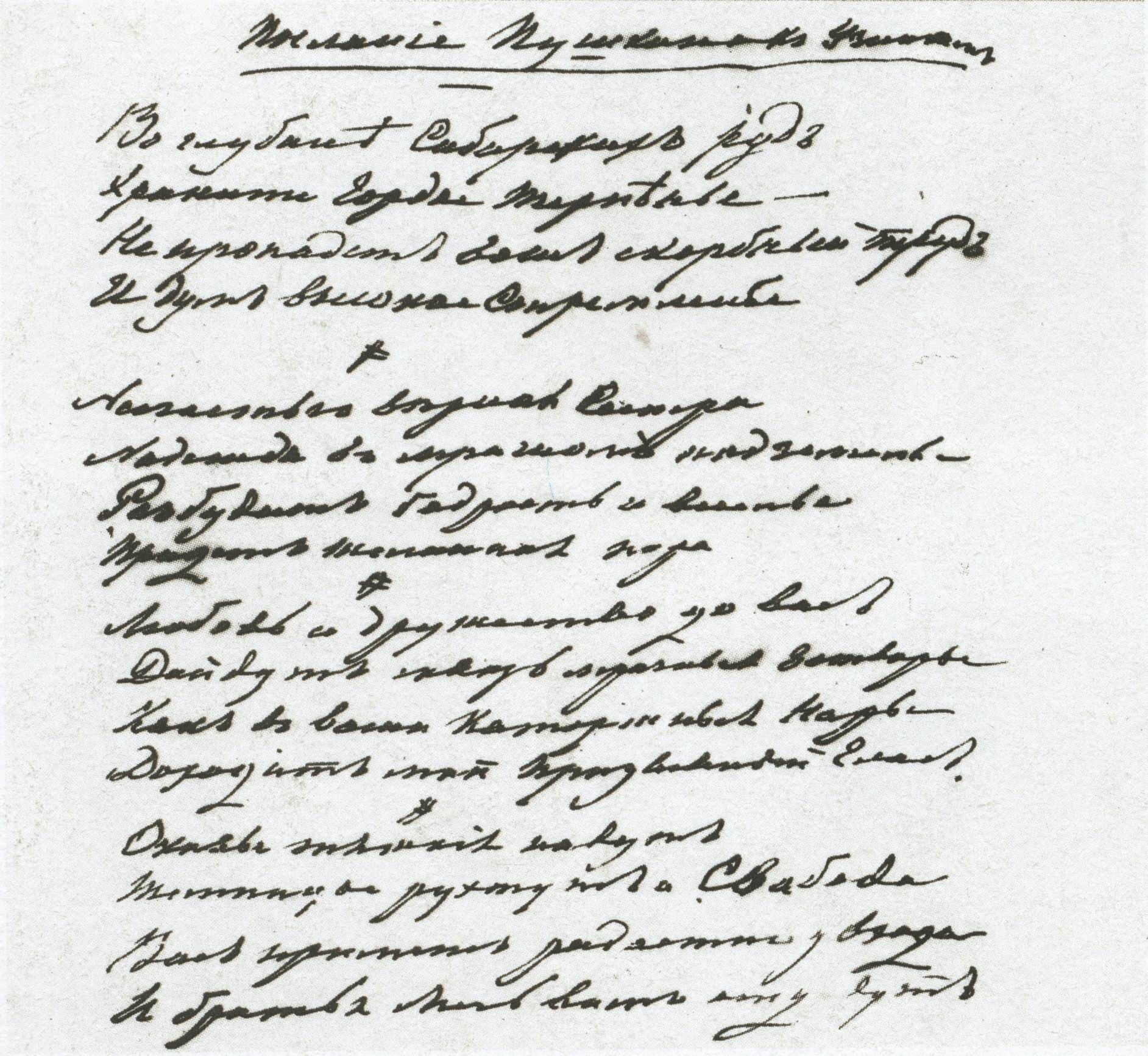 Autograph_of_Pushkin's poem "In the Depths of Siberian Mines"